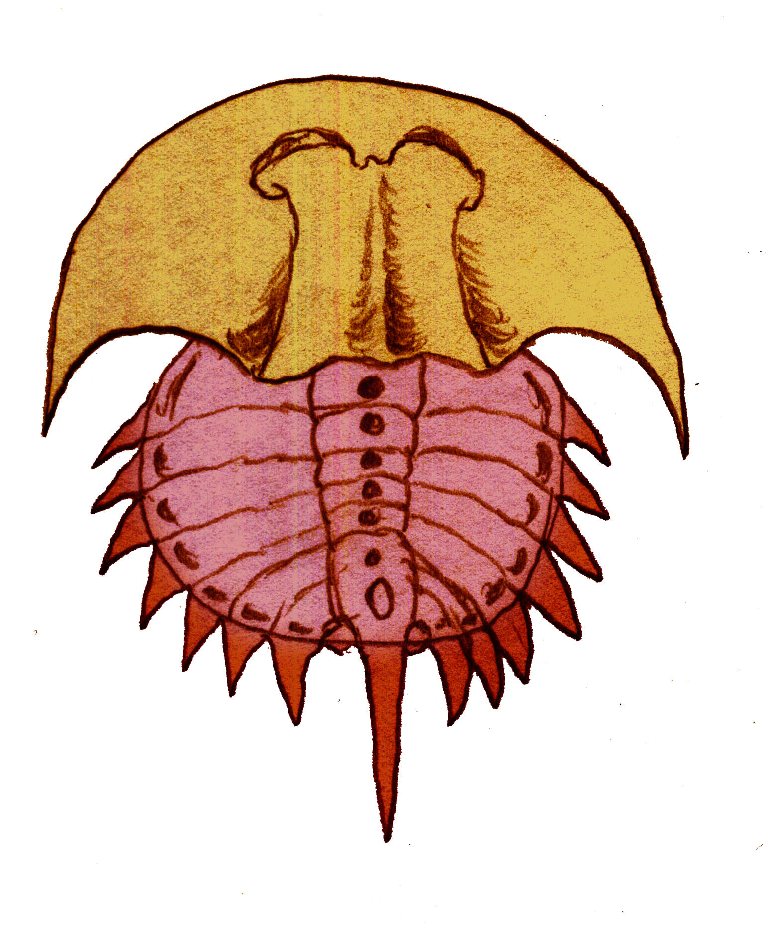 Restoration of Euproops, an extinct arthropod